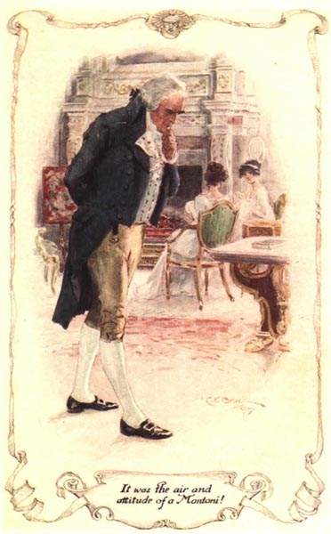 Colour illustration of a 1907 edition of Northanger Abbey (Jane Austen's novel), by C. E. Brock (died 1938)